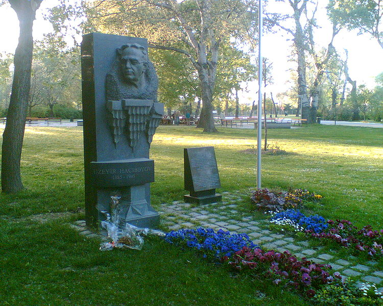 Uzeir Hajibeyov's monument at Vienna, 2006 by Omar Eldarov